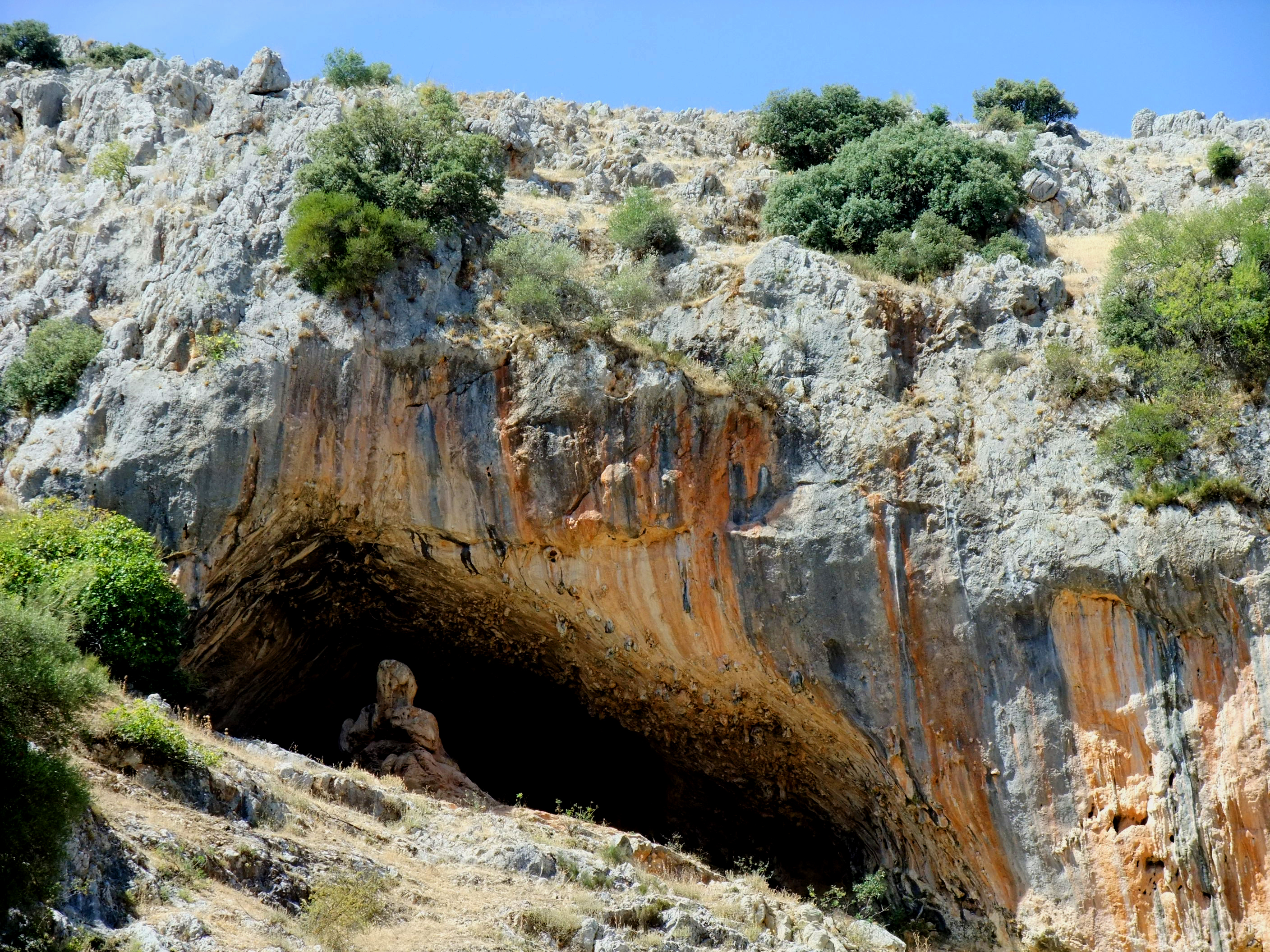 Cueva de los Murciélagos (Eye of the moor) - Cave near Zuheros in Spain